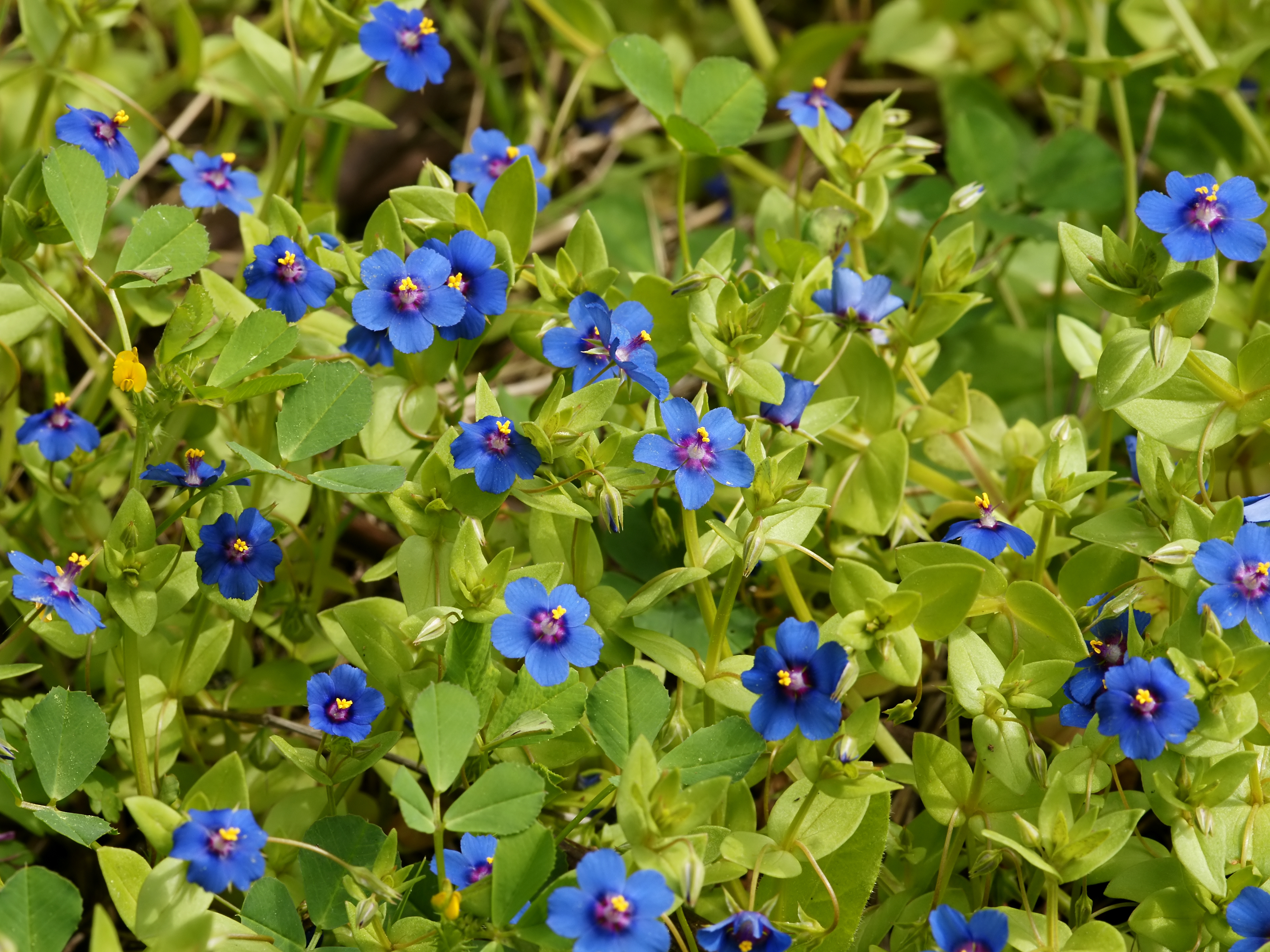 Scarlet Pimpernel near Cala Mondragó, Mallorca.